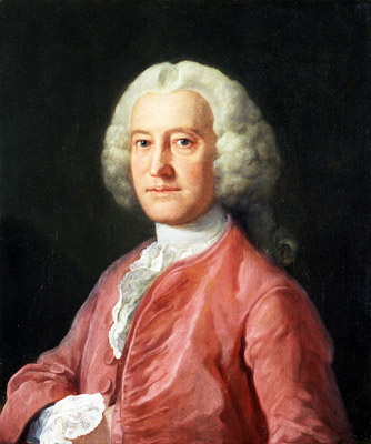 Portrait of Samuel Martin (1714-1788)